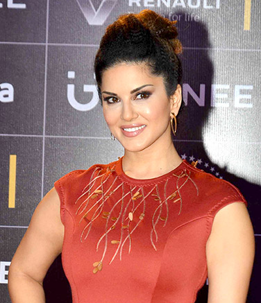 Actress Sunny Leone at the 2016 Global Indian Music Academy Awards 2016